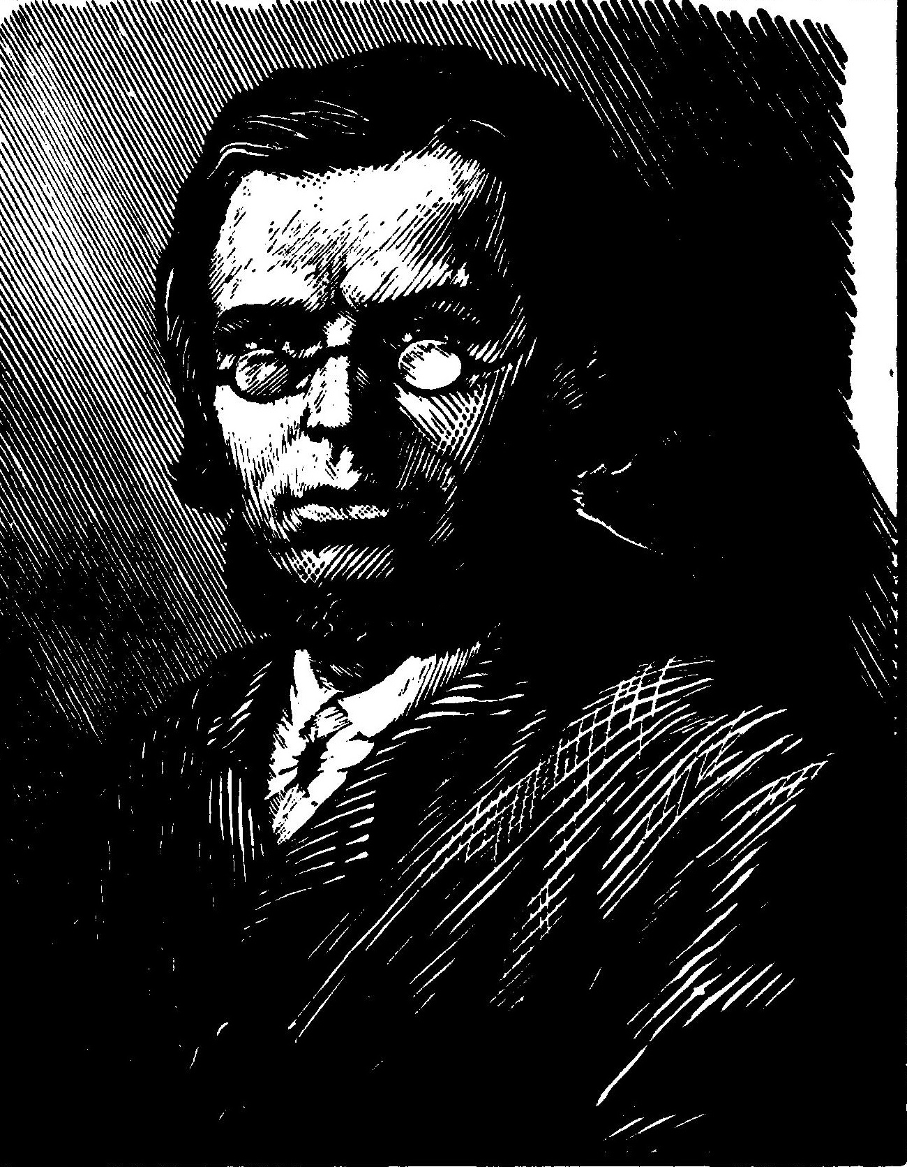 Russian writer Fyodor Mikhailovich Reshetnikov (1841-1871)